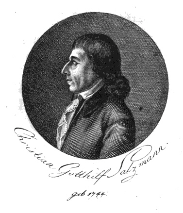 Portrait Christian Gotthilf Salzmann